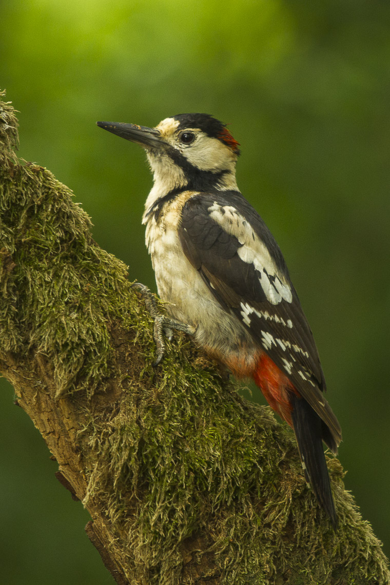 Syrian Woodpecker - HungaryIMG_2998